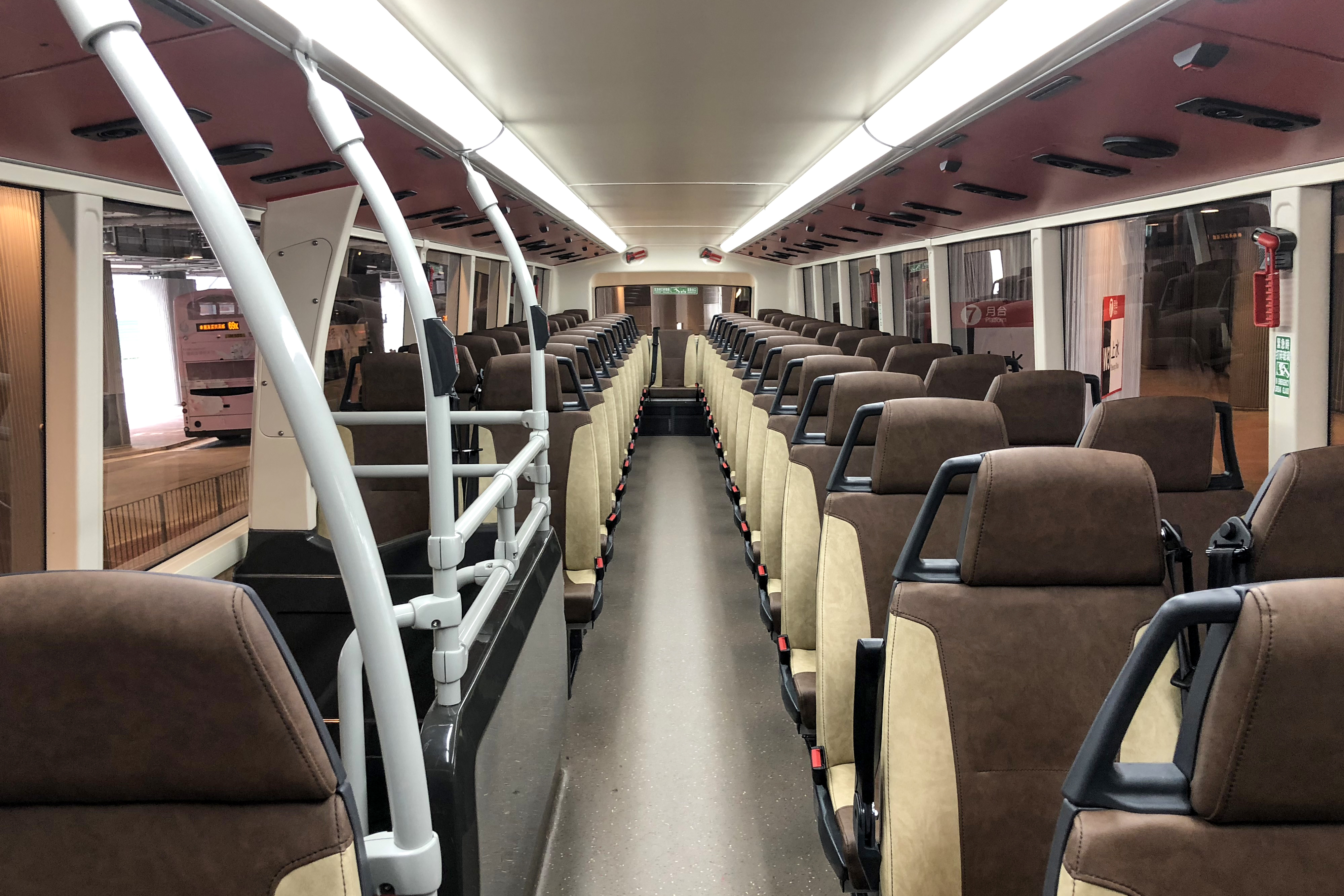 Heartbeat of the City with seatbelts.